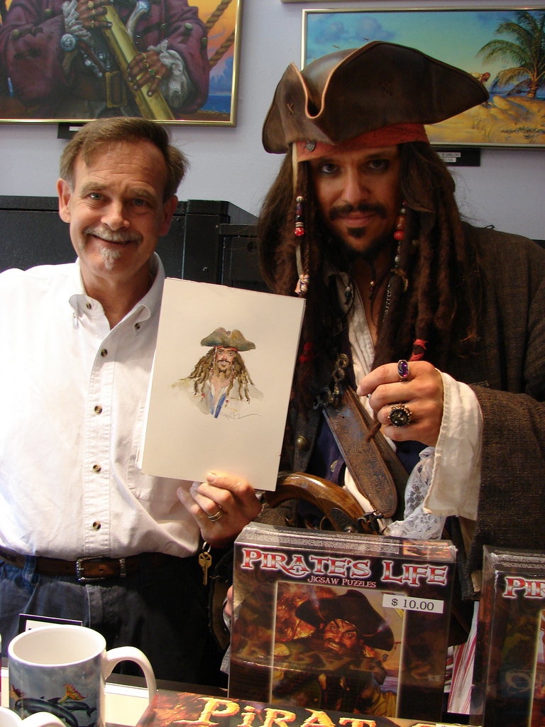 American illustrator Don Maitz with a Jack Sparrow cosplay